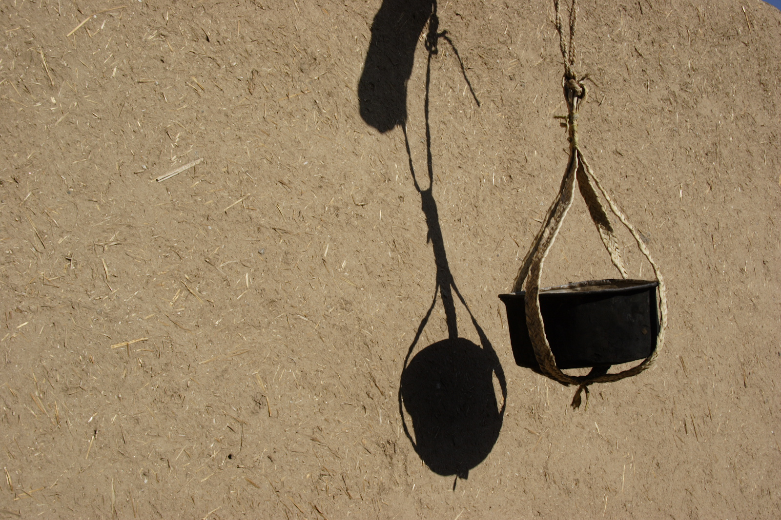 Mi'laq (Mishle'ib) for storing food hanging from a beam in the courtyard of a house in 'Alubah' on Sherari Island in Dar al-Manasir, Northern Sudan.